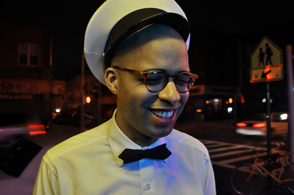 Artist Nate Hill in his milkman costume. Photo by Ty Hardaway.